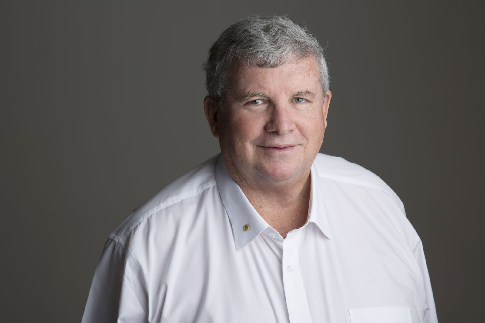 Shane Stone AC QC, Chief Minister of the Northern Territory (1995 - 1999)